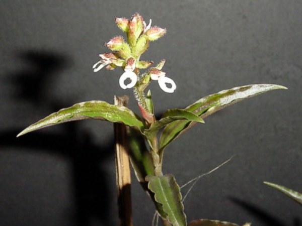 Ligeophila stigmatoptera